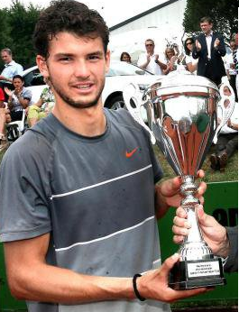 Grigor Dimitrov with the trophy of the Apano Cup in 2010 (Future tournament in Dortmund).